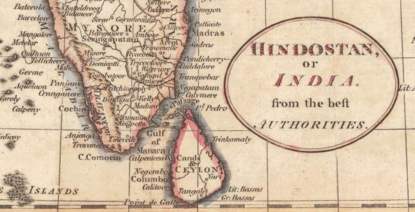 This is a detail from a period map showing the major coastal colonial outposts in southern India and Ceylon in 1794. Control of many of these outposts changed hands during the 18th century; which state (usually France, the Dutch Republic, or the United Kingdom) controls which locations is not shown.